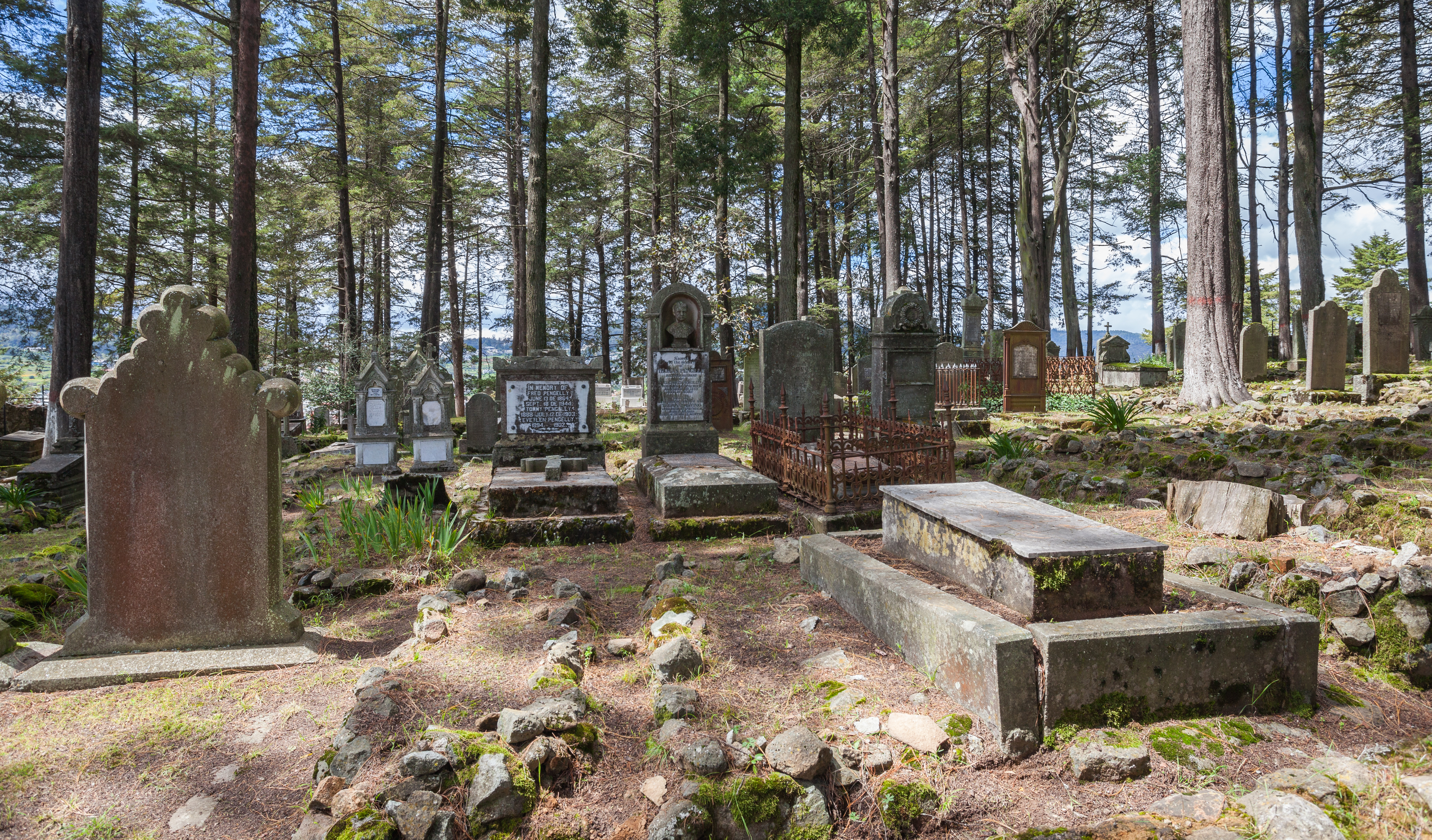 English Pantheon, Real del Monte, Hidalgo, Mexico